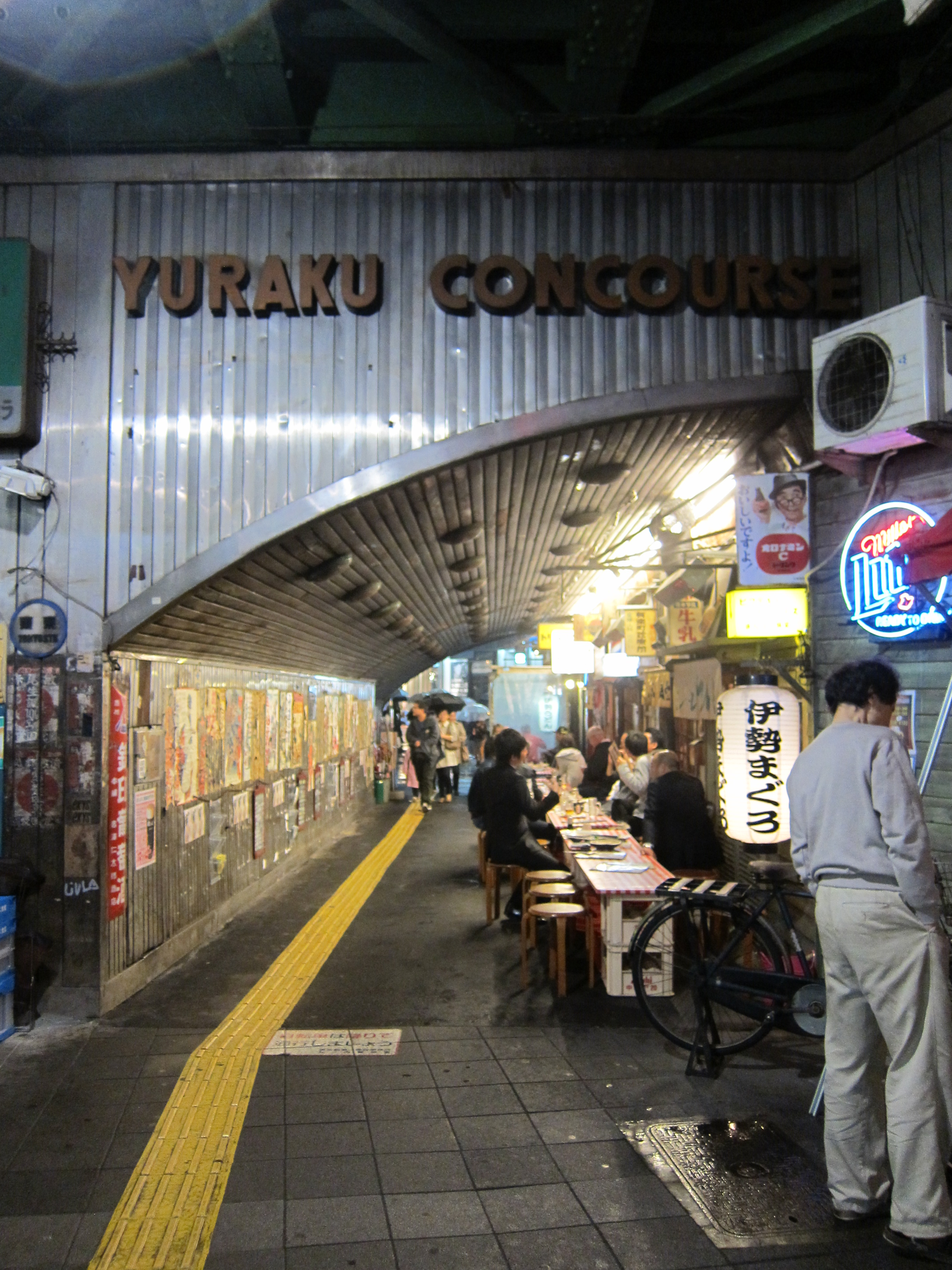 Rainy night